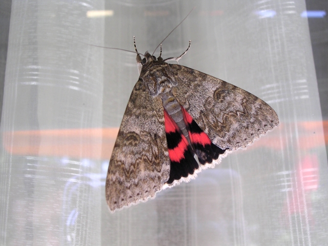 Catocala electa